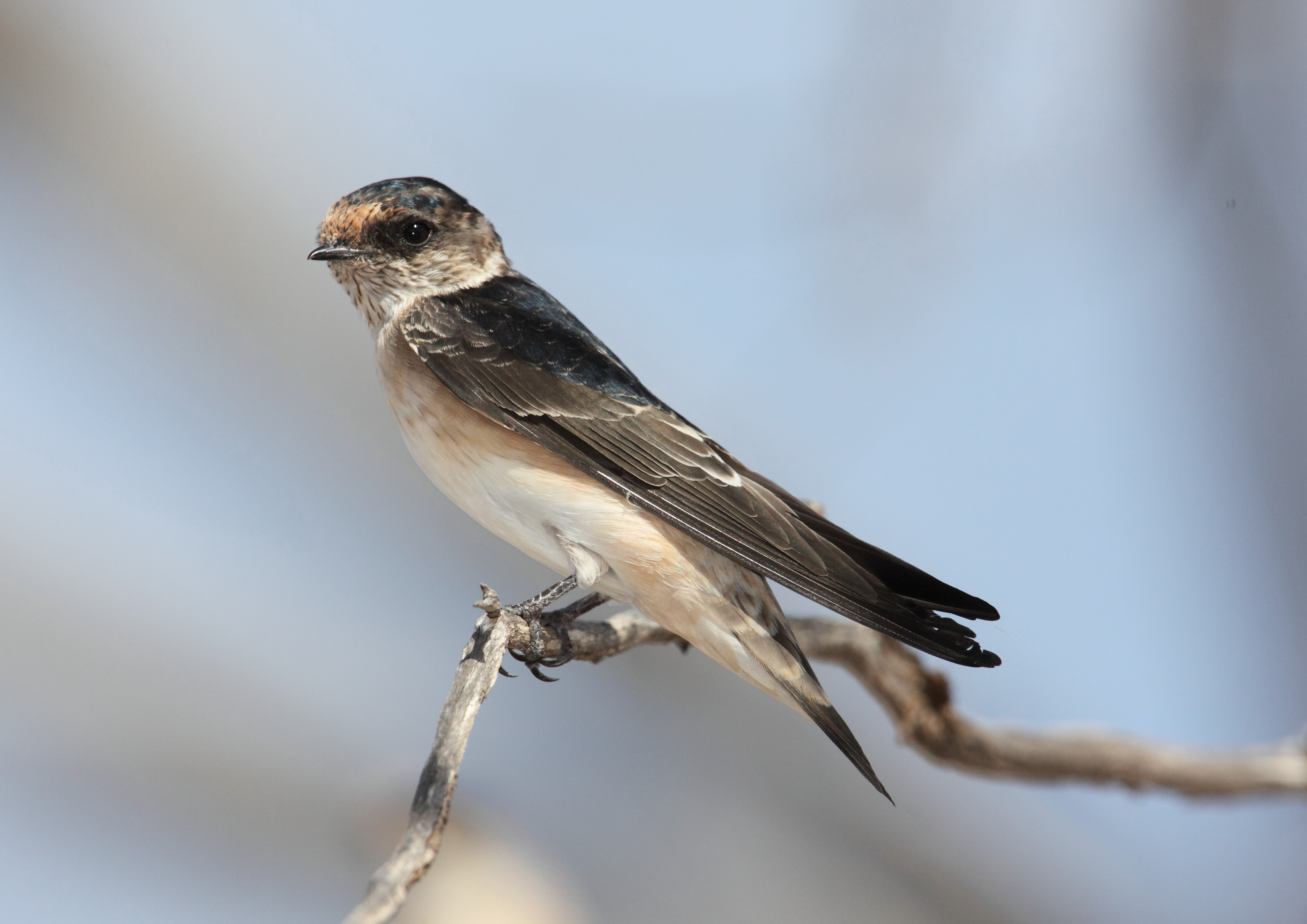 These seem to be the tamest of the swallows and martins. They will land within 4-5 metres of the observer. That is very unusual for any bird in my area.